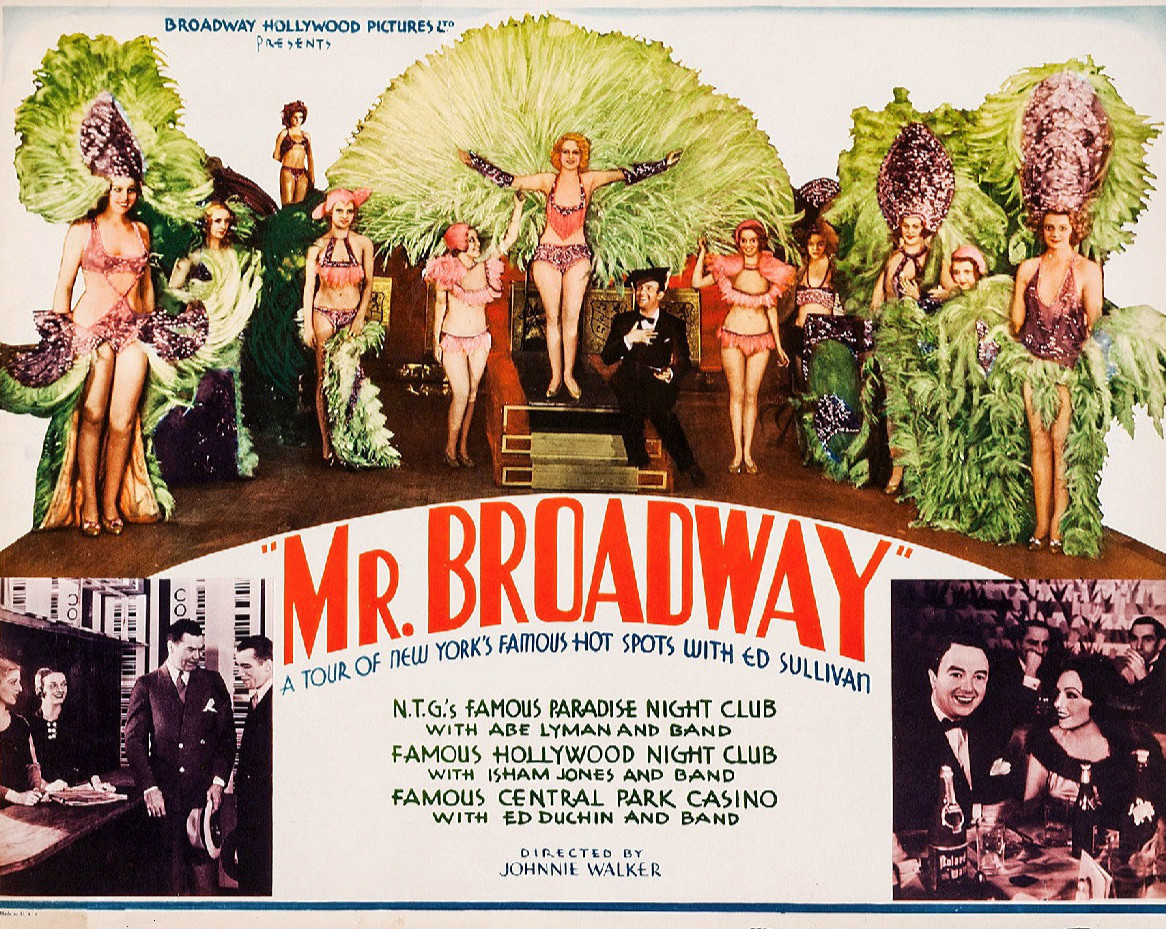 Poster for the 1933 film Mr. Broadway. Renewal searches were done in film and artwork for the years 1960 and 1961 There were no listings for the title in film nor any for the title or Broadway-Hollywood Productions in artwork. There's no evidence that copyright continues on the film, artwork or other items related to this film.